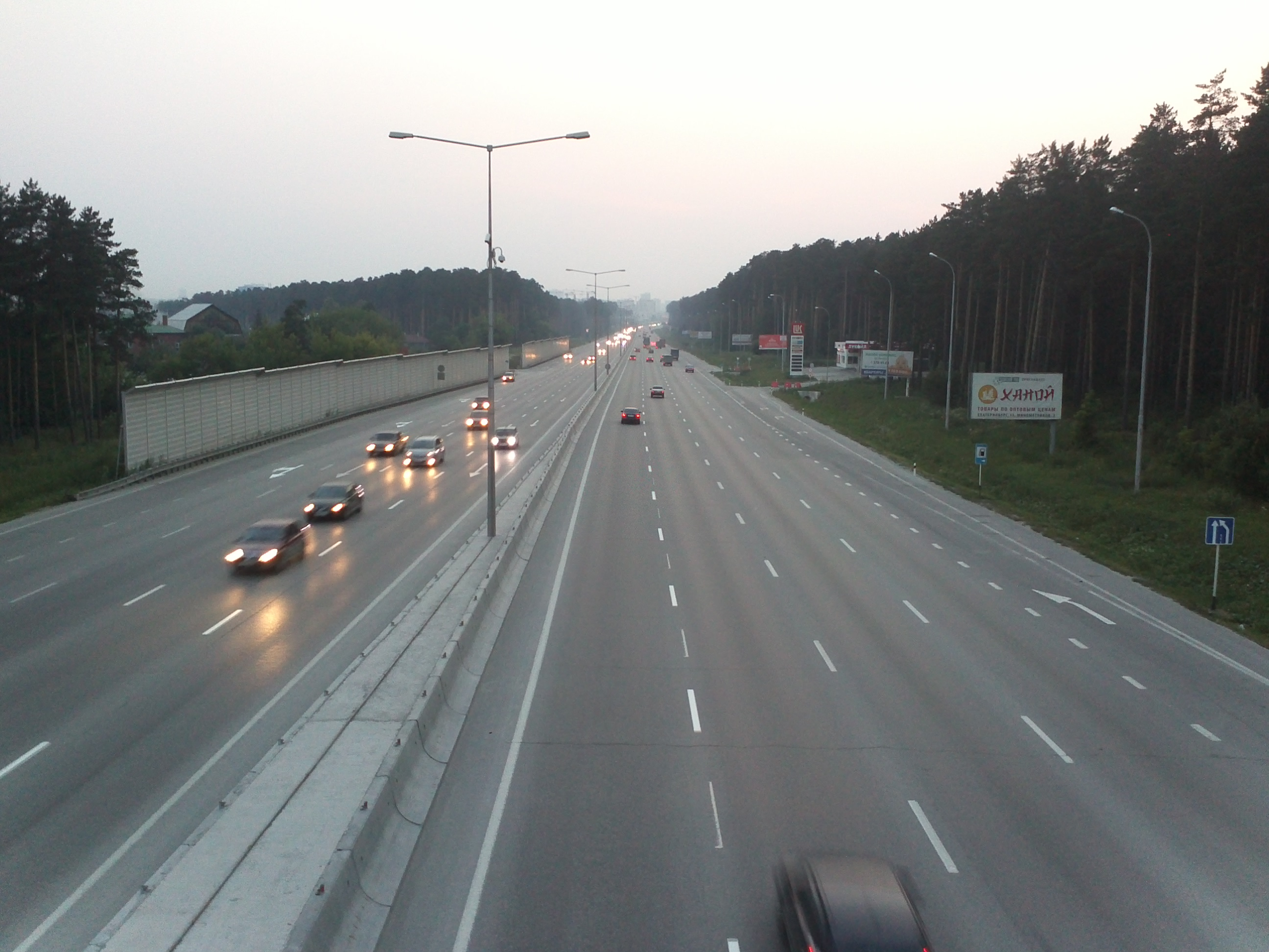 Rosselbahn, Ekaterinburg